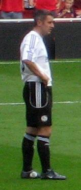 English football (soccer) player Andy Griffin